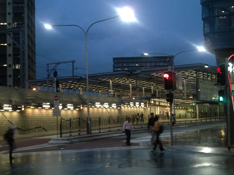 Parramatta, Sydney, NSW, Australia: Railway Station